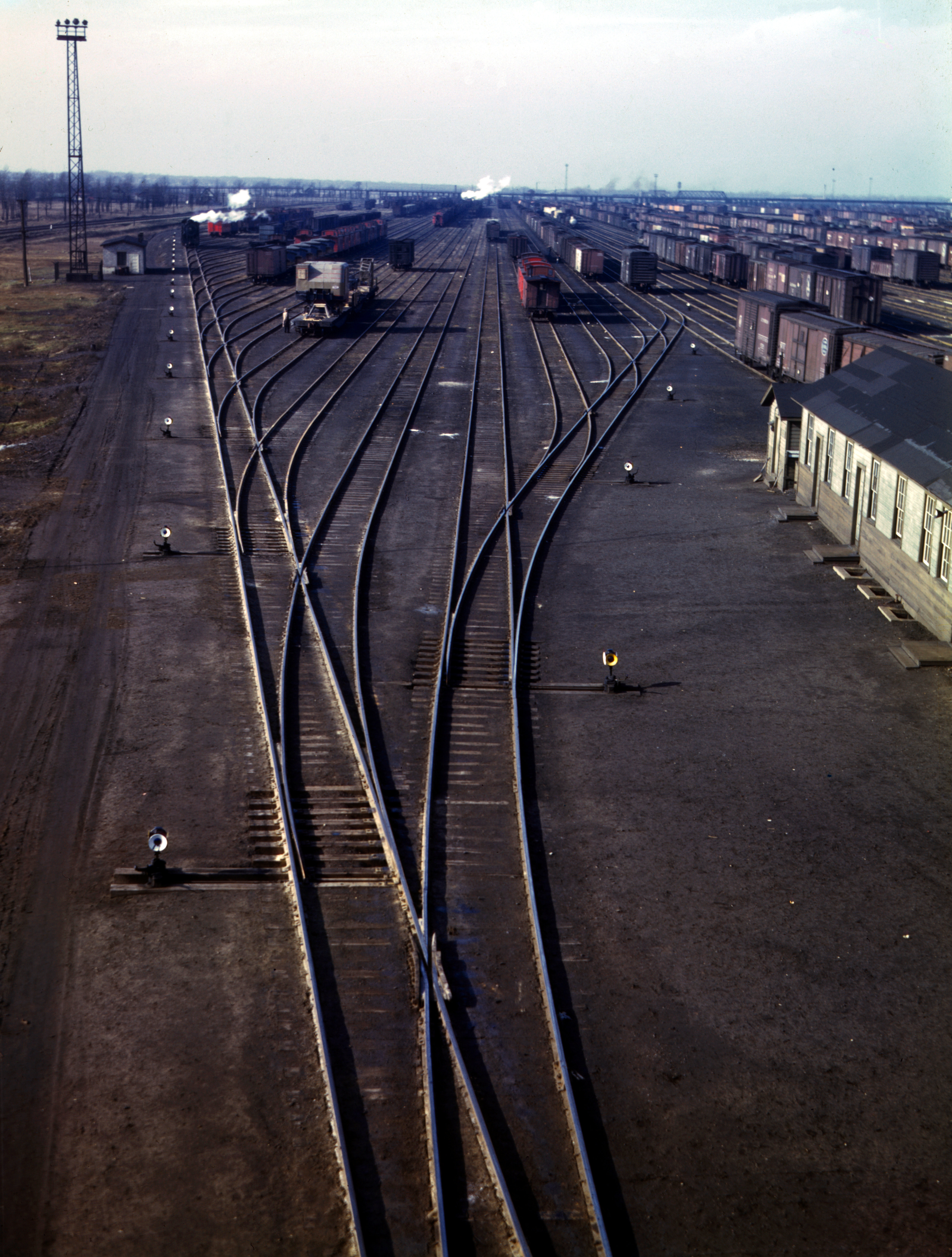 A railroad yard in Chicago, Illinois, (Proviso Yard) operated by the Chicago and North Western Railway.